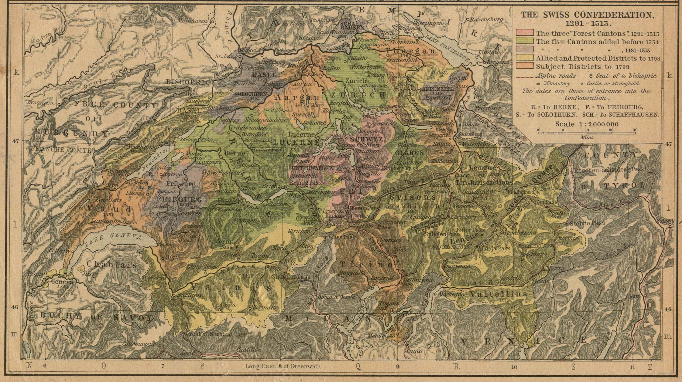 Historical map of Switzerland 1291-1515